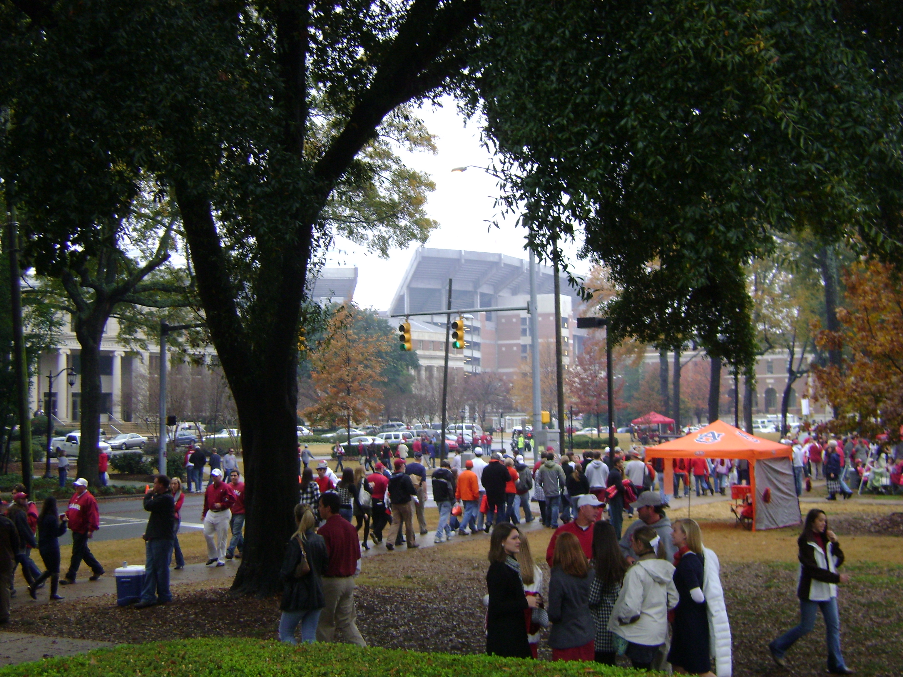 View of Bryant-Denny Stadium from Denny Chimes at the University of Alabama before the 2008 Iron Bowl on November 29, 2008